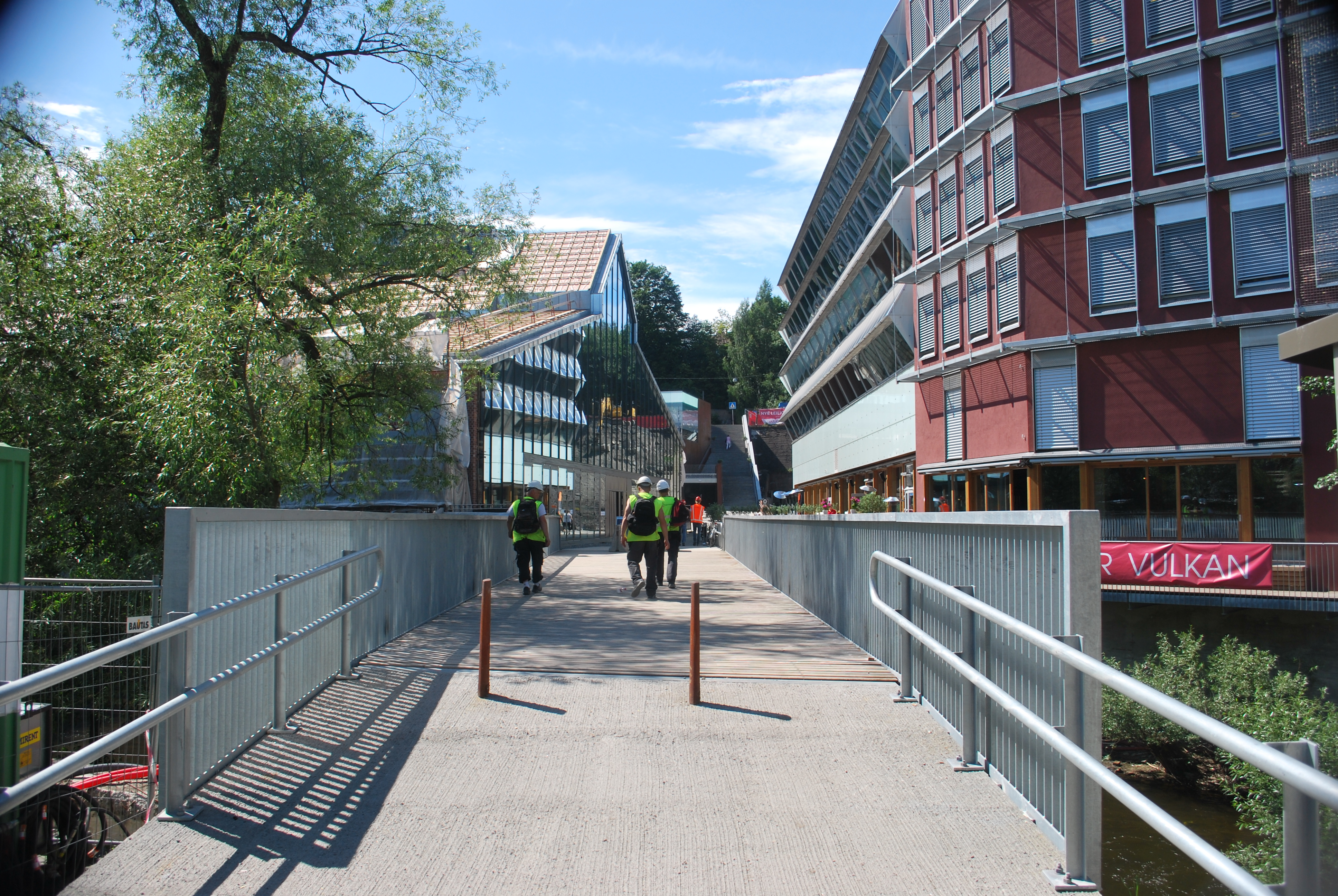 Anne Holsens bru, foot bridge over Akerselva at Vulkan, Grünerløkka, Oslo. Opened 2011, named by minister Inga Marte Thorkildsen 24 August, 2013